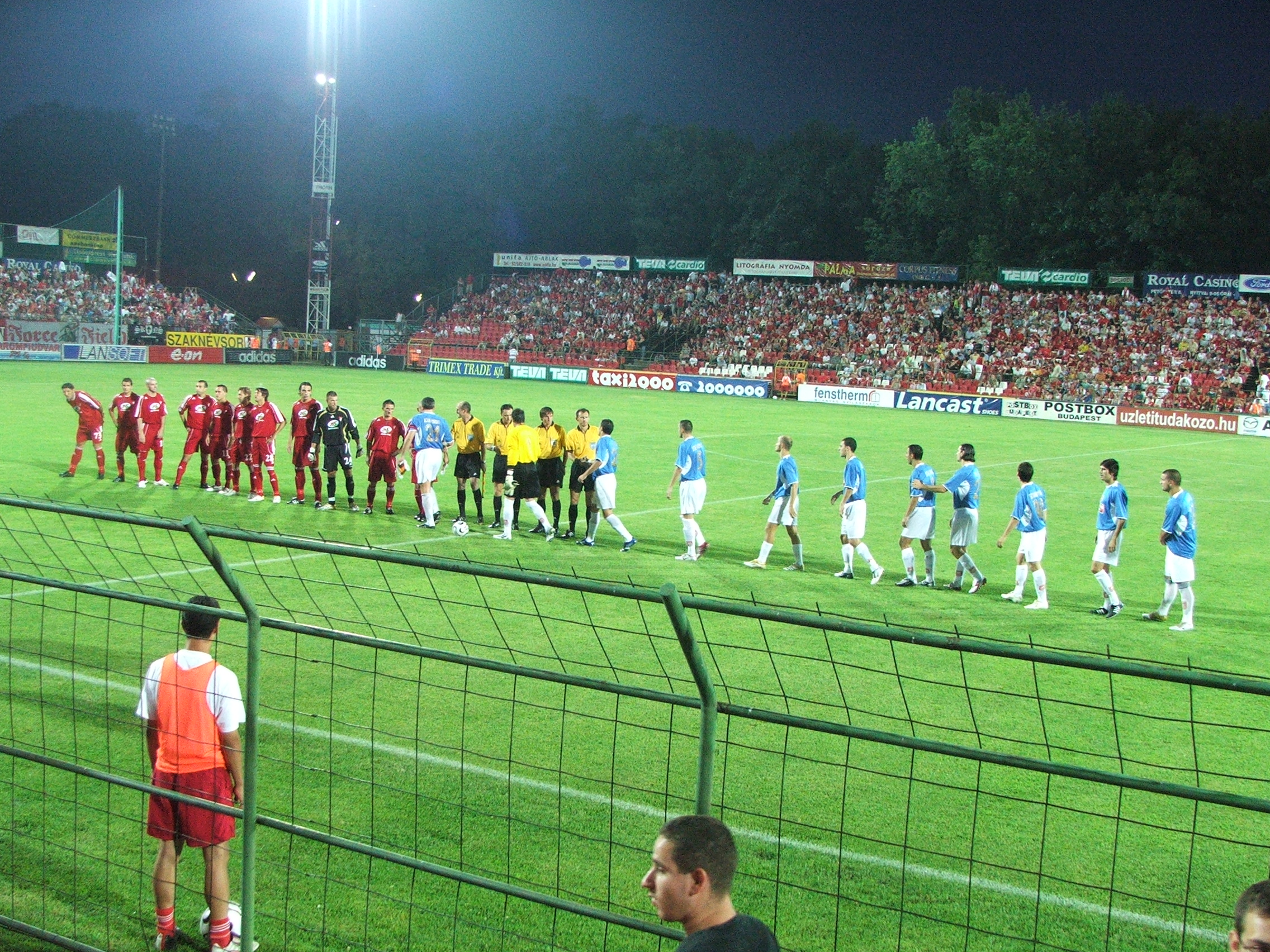 Qualifying champions league 2006-07 match. Debreceni VSC (Hungary) - FK Rabotnicki (Macedonia).